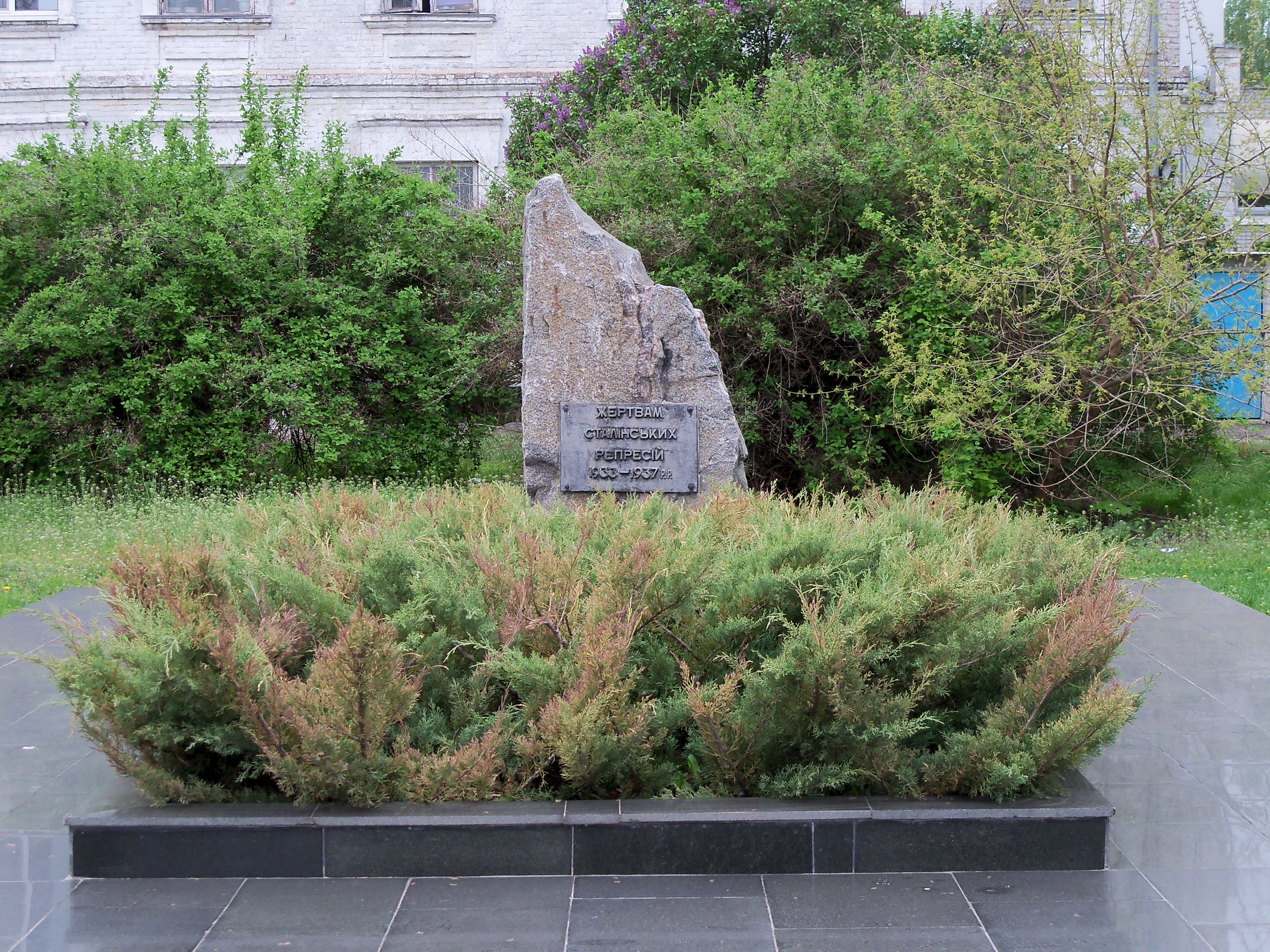 Monument to victims of Stalinist repression in Kremenchuk